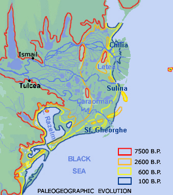 Paleogeography & evolution of Danube delta, since Antipa, Gâstescu & Gomoiu.